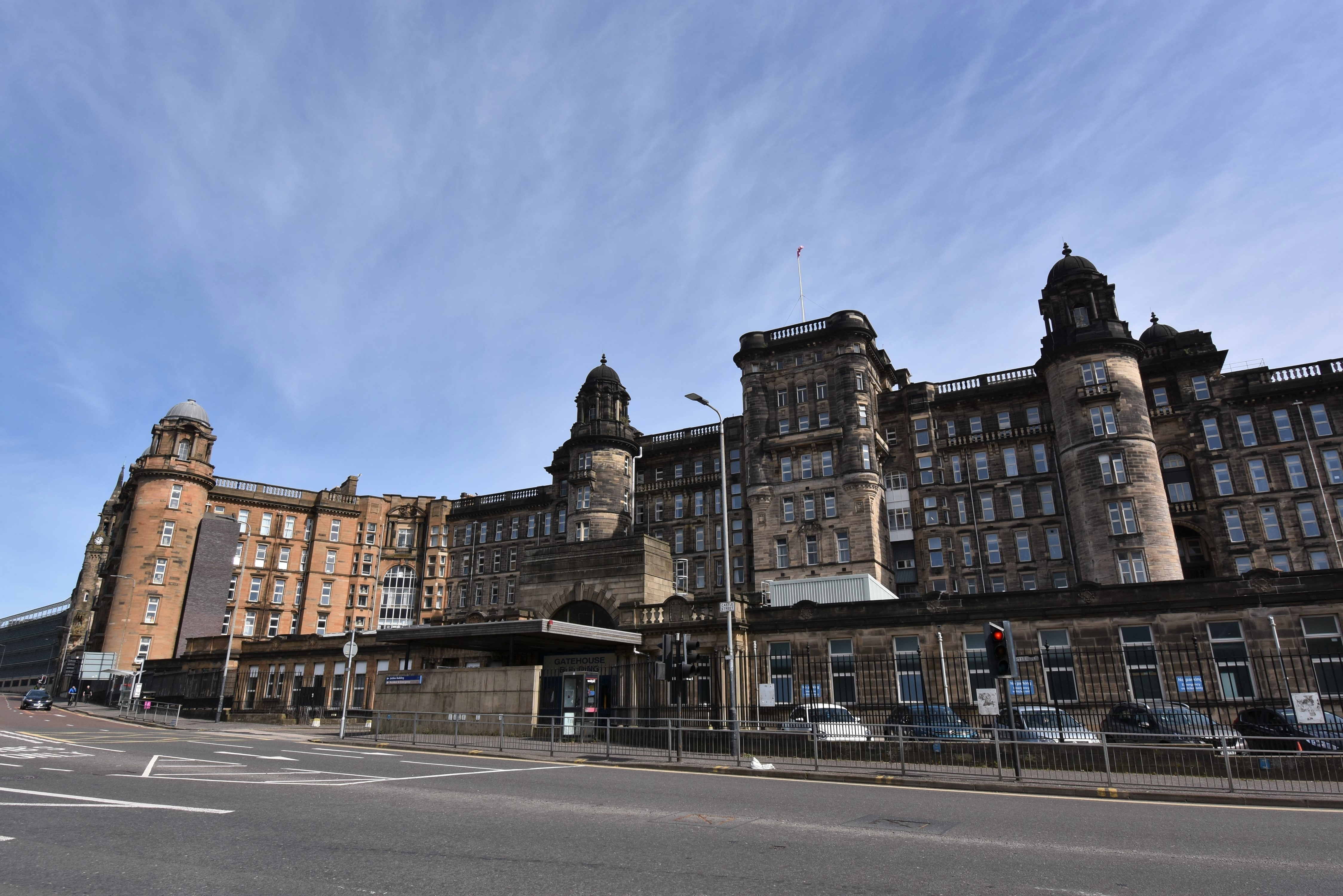 Glasgow. Glasgow Royal Infirmary, 1905-1915, architect: James Miller (1860-1947). Centre Block, opened in 1914. View from Castle Street.